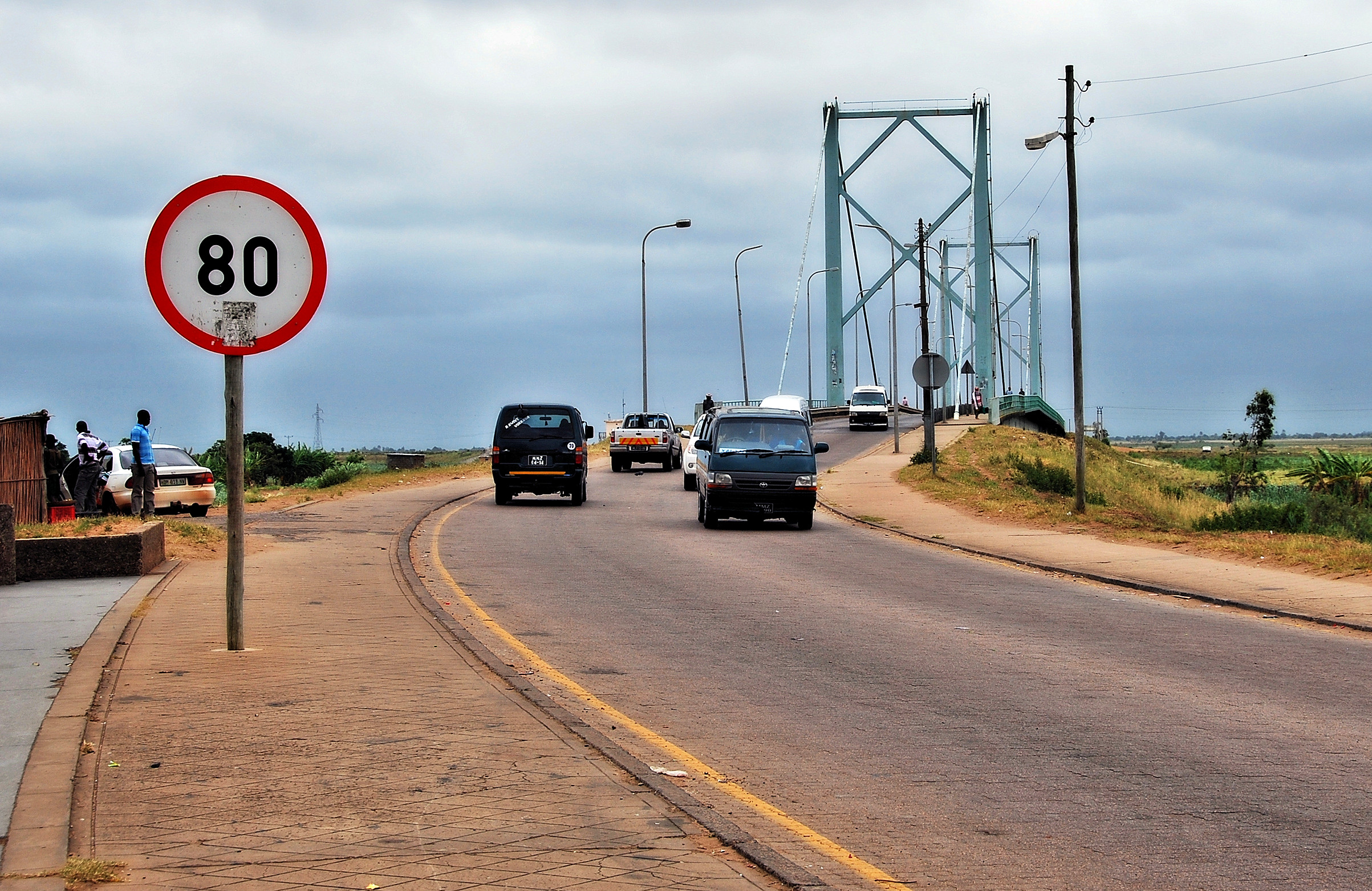 Speed limit sign, 80 km/h, in Xai-Xai, Mozambique. Bridge over the Limpopo river in the background.